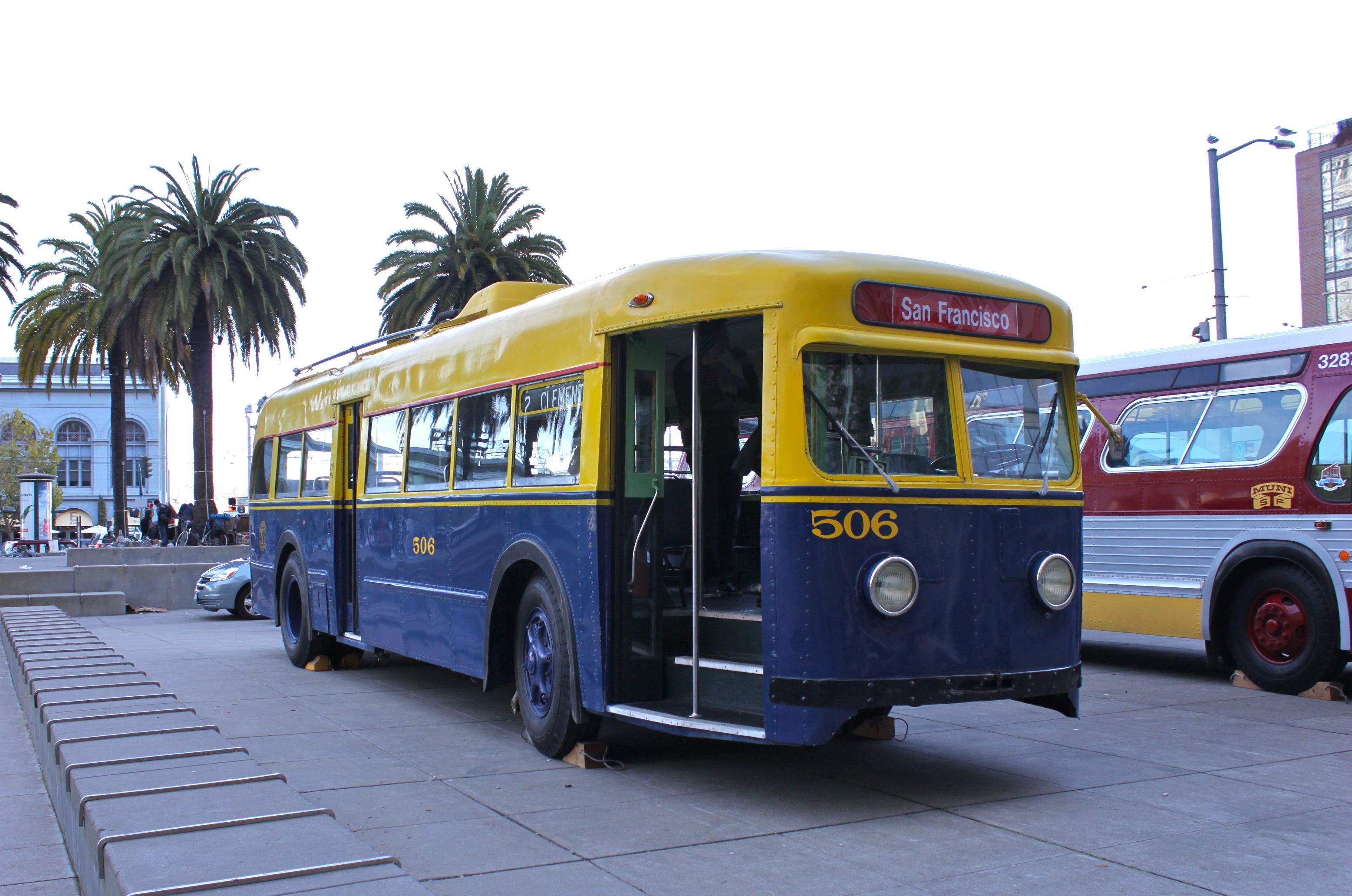 San Francisco Muni trolleybus 506 on display at the Muni centennial streetcar festival. No. 506 was built by the St. Louis Car Company in December 1939 but not delivered until mid-1941, and was one of the vehicles used on Muni's first trolley coach route (the R-line), which opened in September 1941. Around 1991–92, it was restored to its original paint scheme, this blue-and-gold livery, but is not operable.